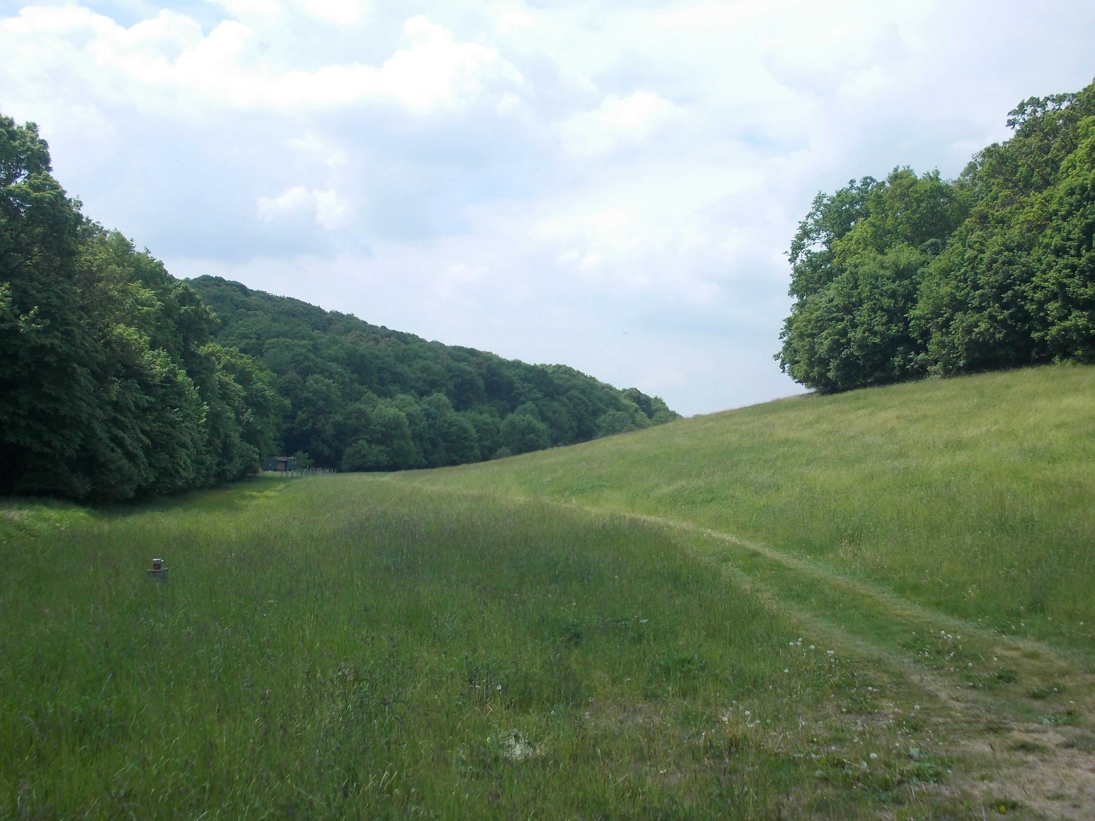 Hirschrodaer Graben nature reserve (Balgstädt, district: Burgenlandkreis, Saxony-Anhalt)